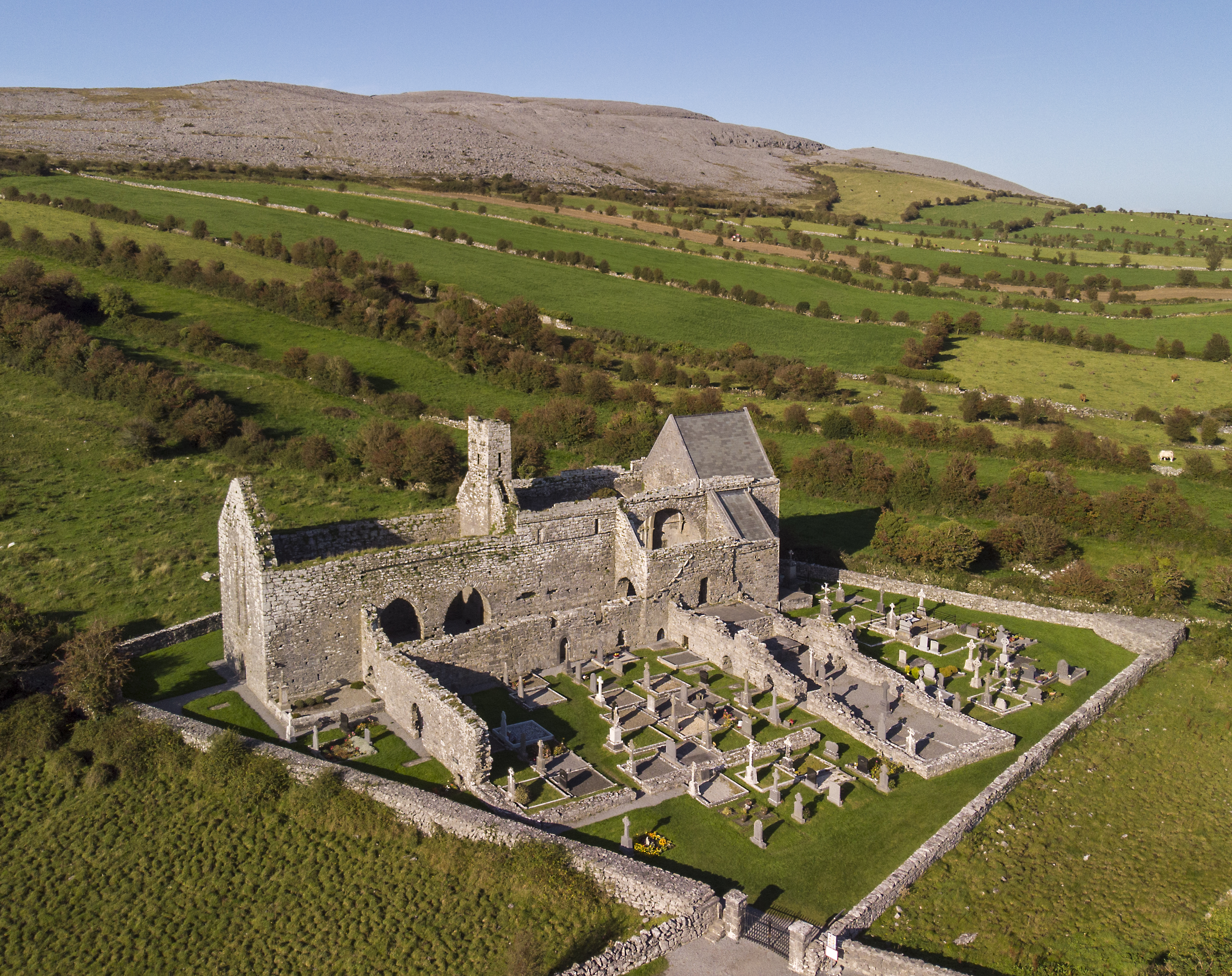 Corcomroe Abbey